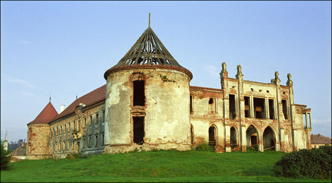 Castle of the Bánffy family, Bonţida, Romania